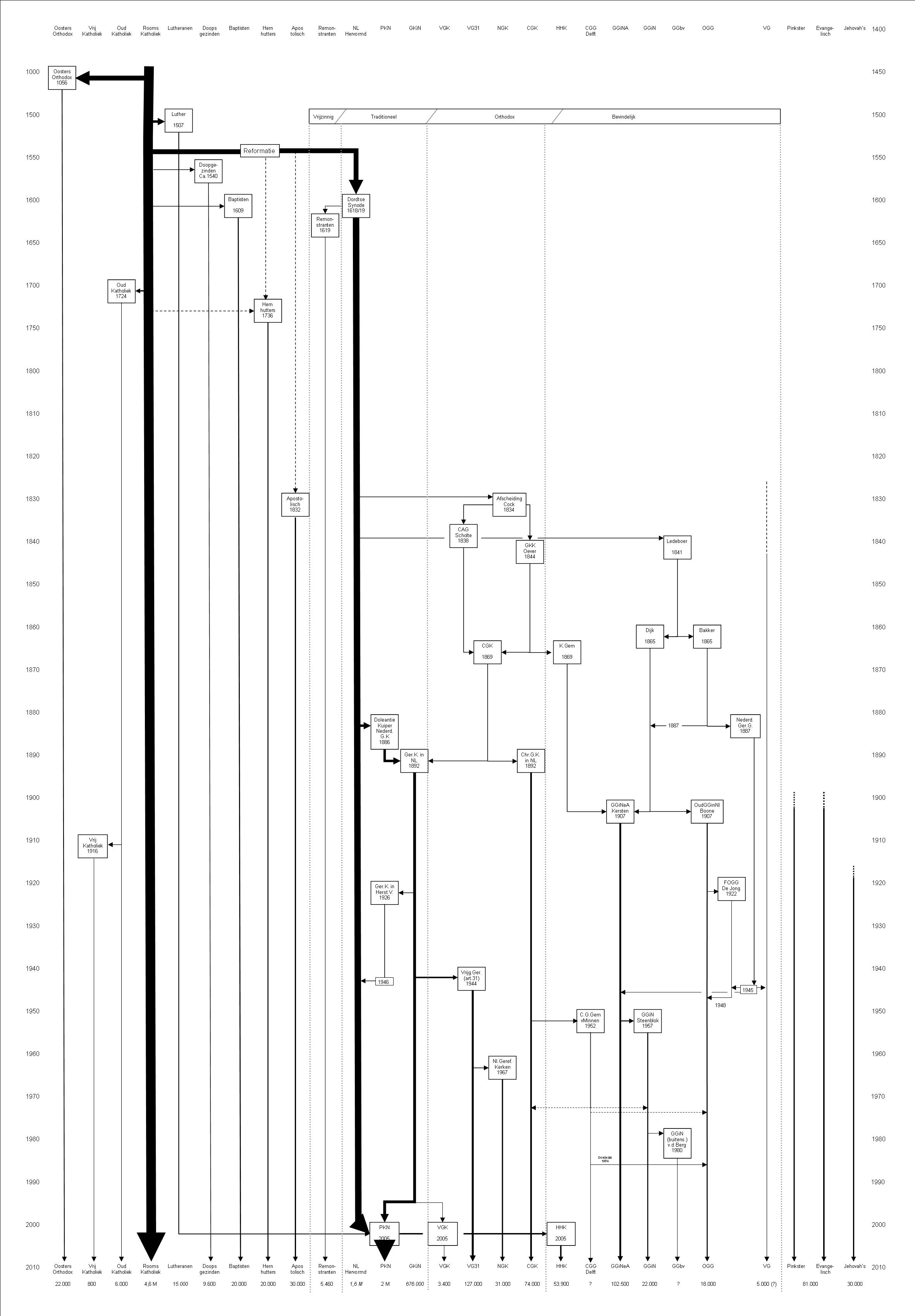 Chart of the genesis of the various churches in the Netherlands